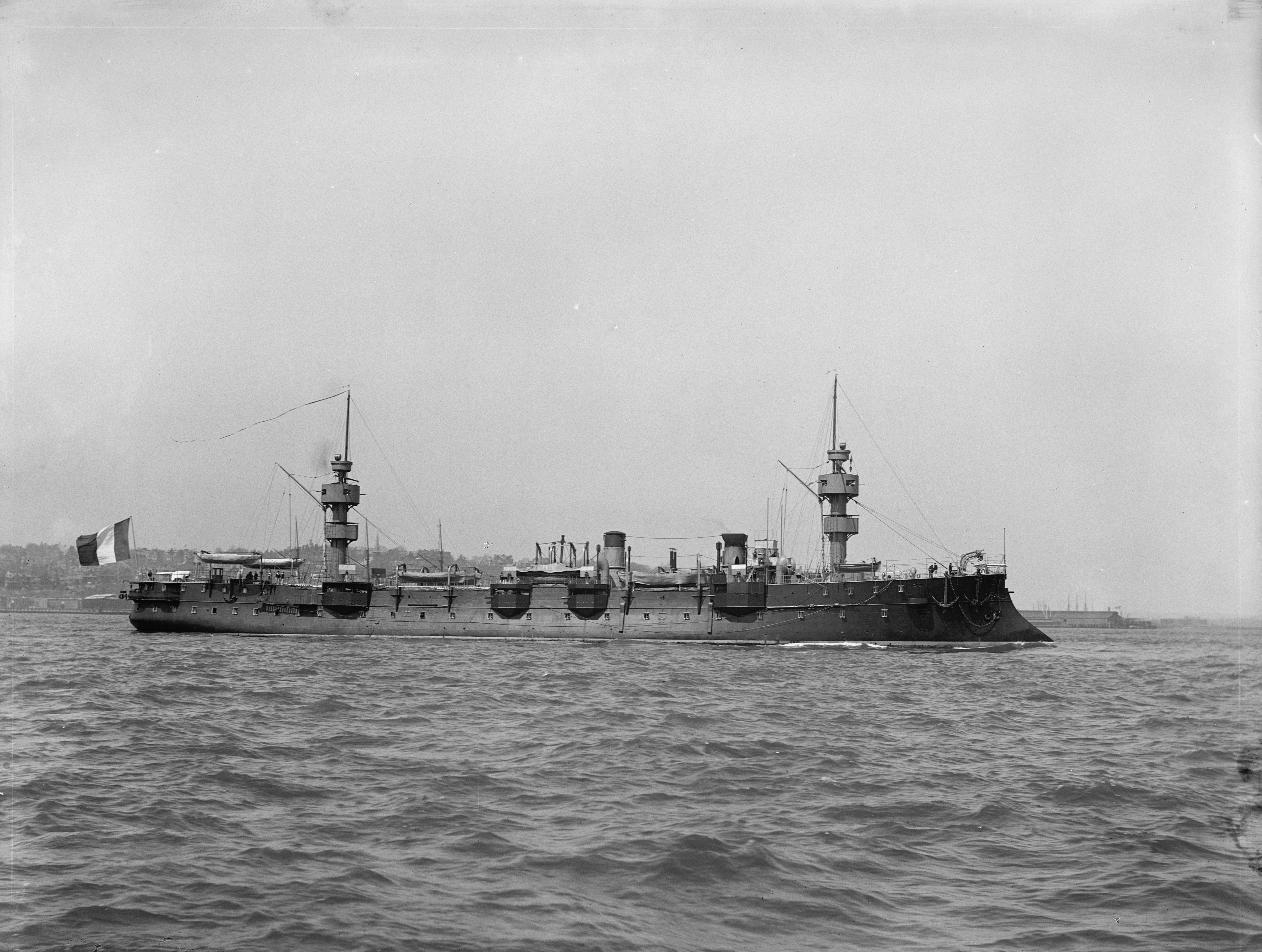 The French cruiser Jean Bart between 1892 and 1899.